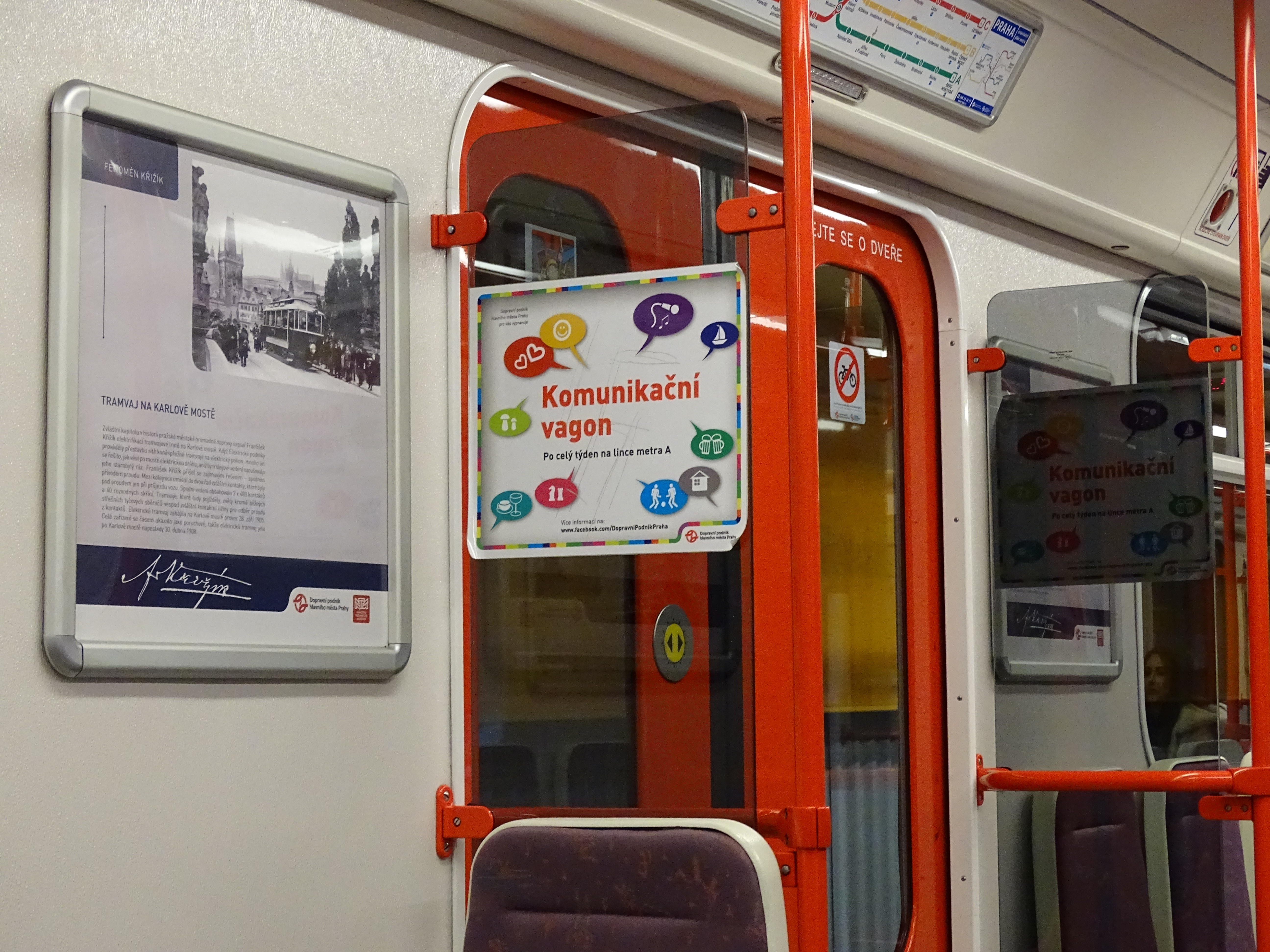 Prague-Strašnice, Czechia. Metro station Depo Hostivař, interior of a coach.